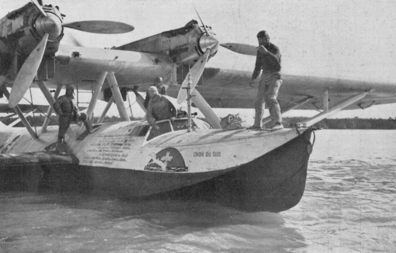 Seaplane Latécoère 300, Natal, Brazil, 1 September 1934